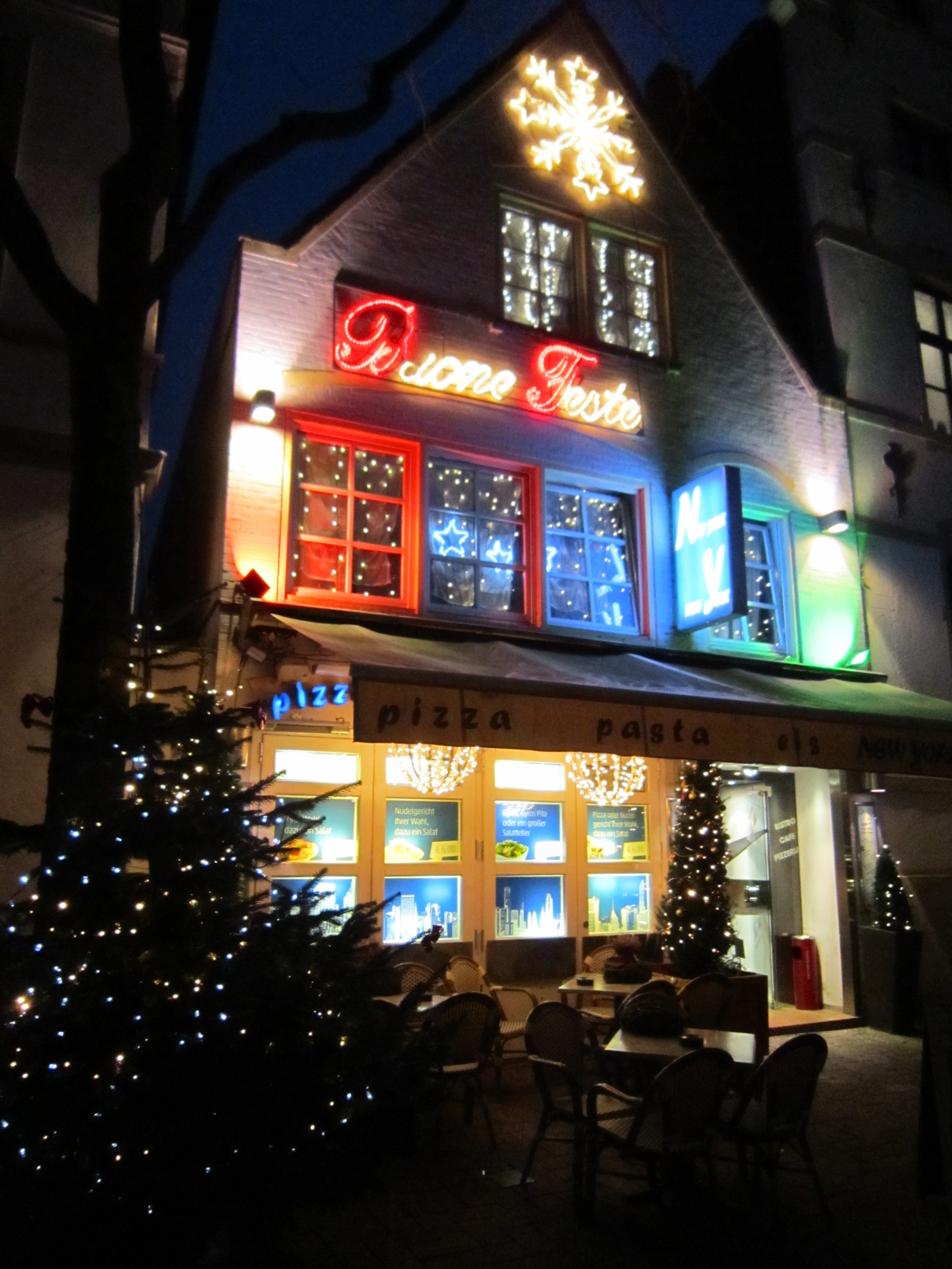 Wallstraße in Oldenburg: Italian christmas greeting